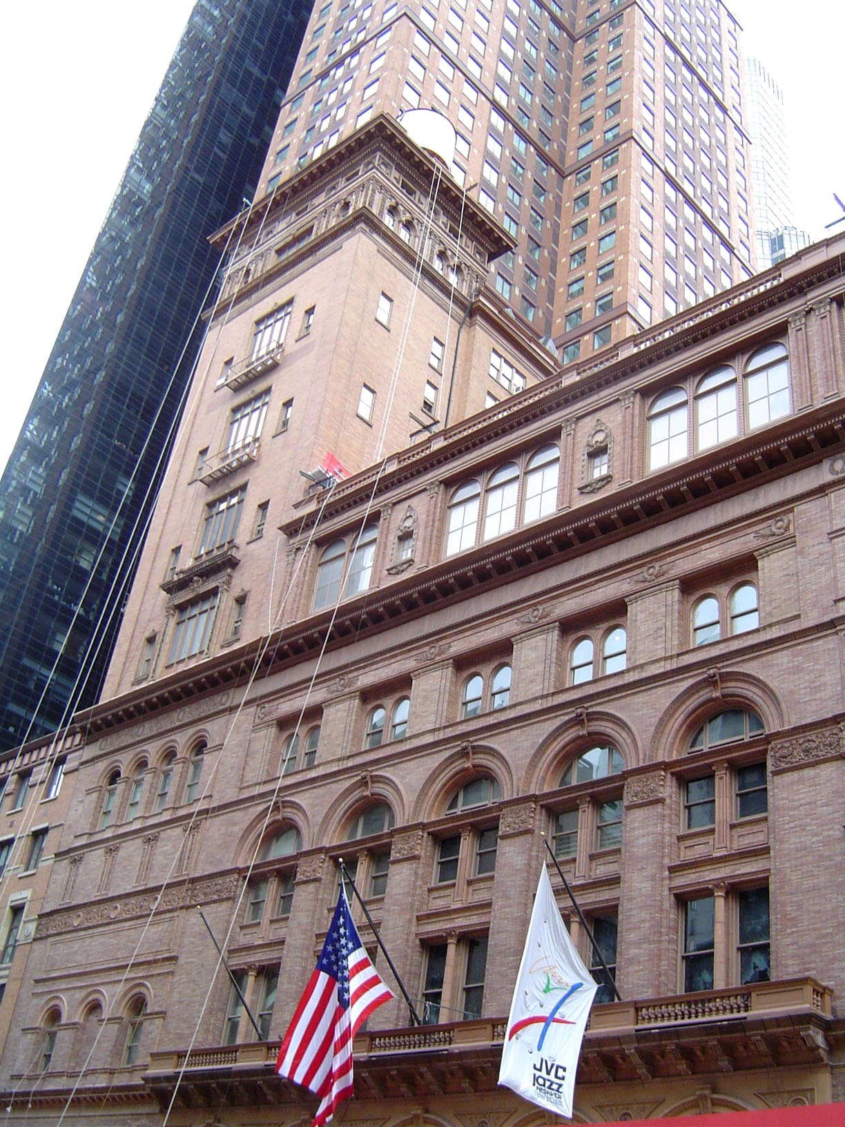 Photographed and uploaded by user:Geographer. Carnegie Hall, June 19, 2005